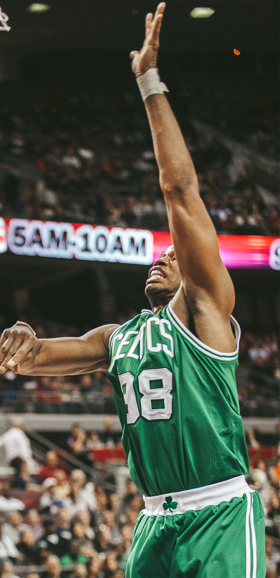 detroit pistons v. boston celtics 1/20/13